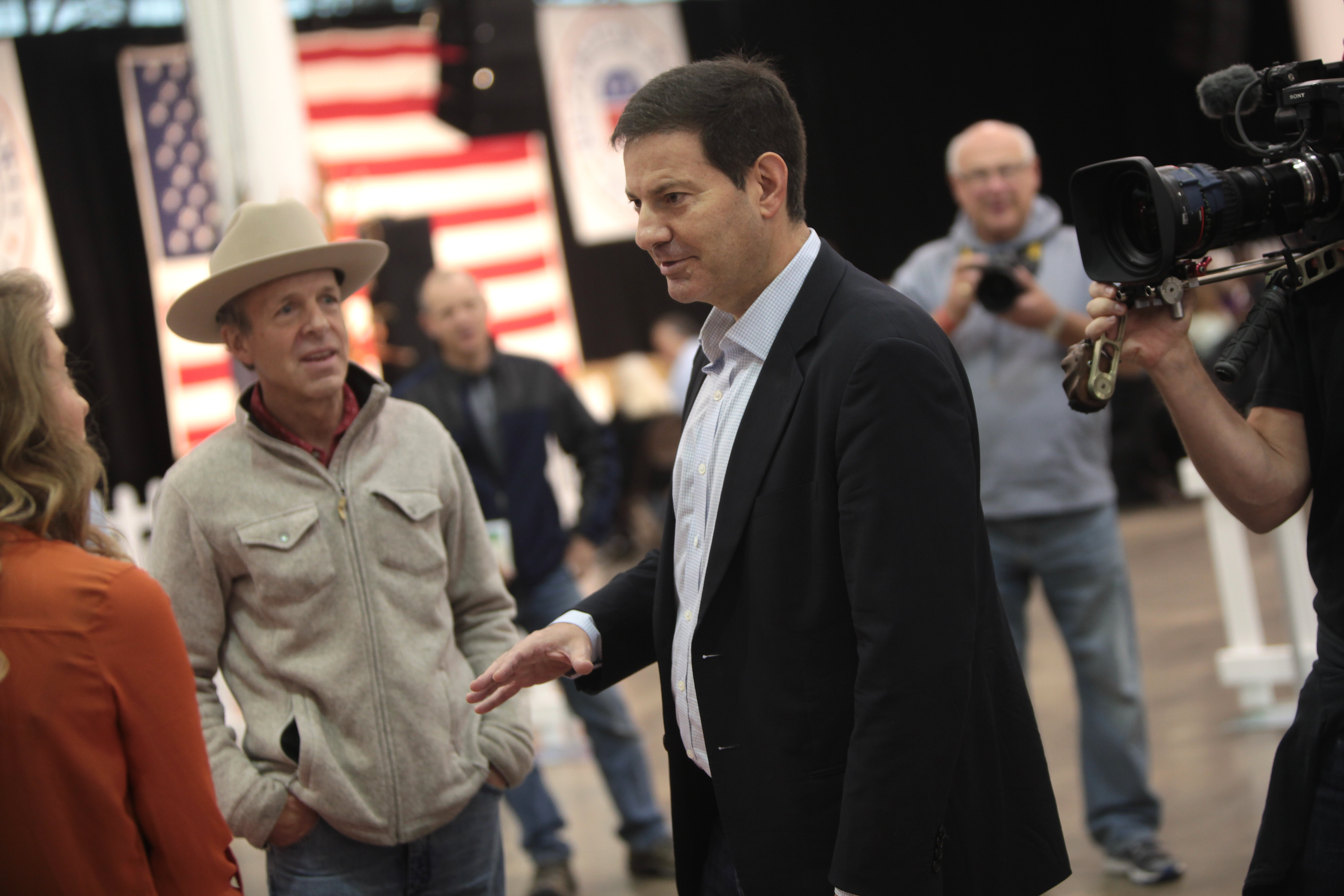 Mark Halperin at the 2015 Iowa Growth & Opportunity Party at the Varied Industries Building at the Iowa State Fairgrounds in Des Moines, Iowa by Gage Skidmore.